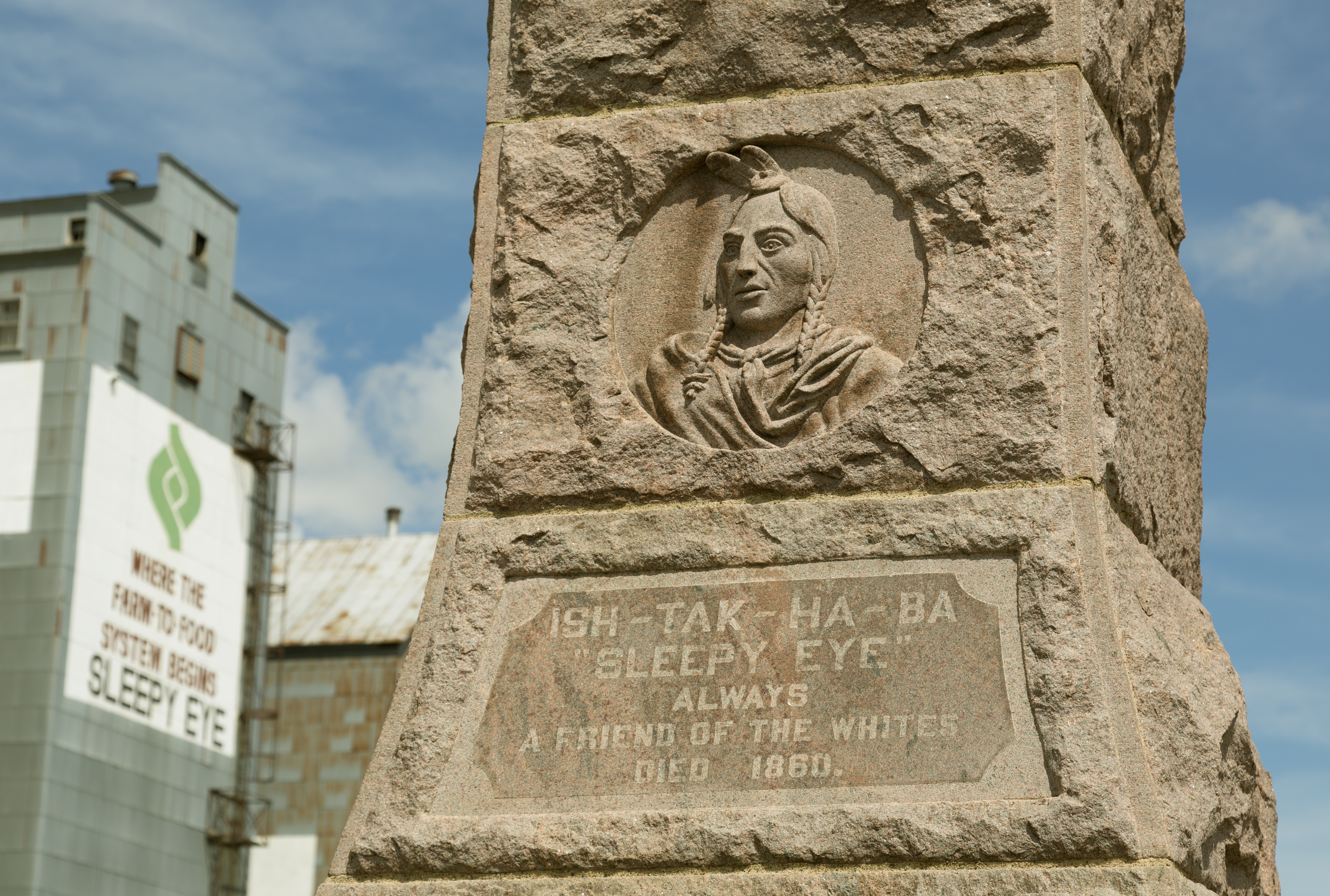 Sleepy Eye - "Always a friend of the whites" - monument in Sleepy Eye, minnesota